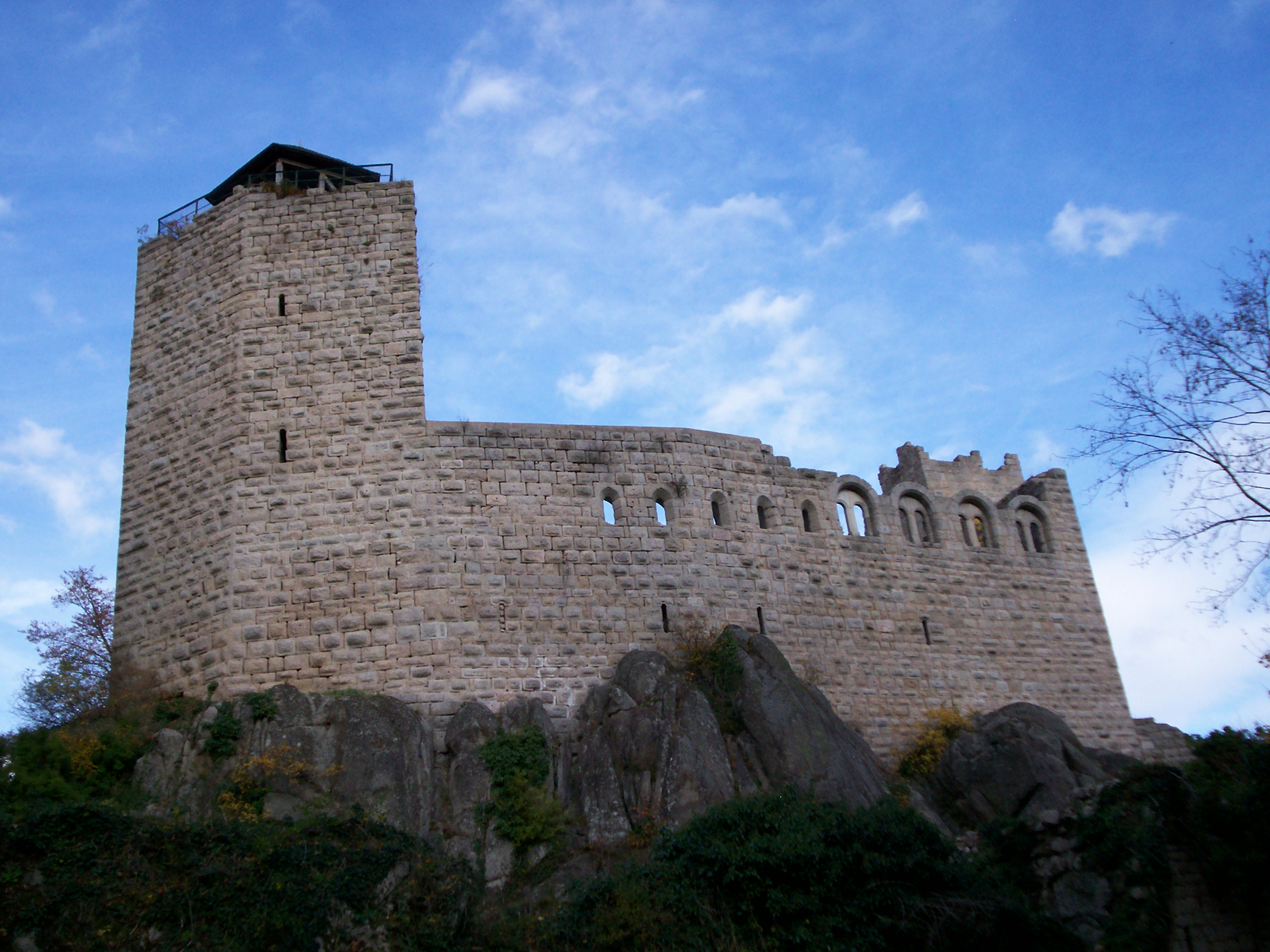 Castle of Bernstein, near Dambach-la-ville, France.